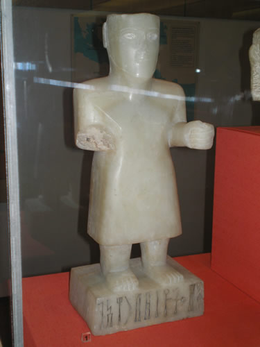 Funerary statue of Ama'alay dhu-Dharah'il from Hayd ibn Aqil (ancient South Arabia), Liverpool World Museum (Répertoire d'Épigraphie Semitique 3896 n. 14)